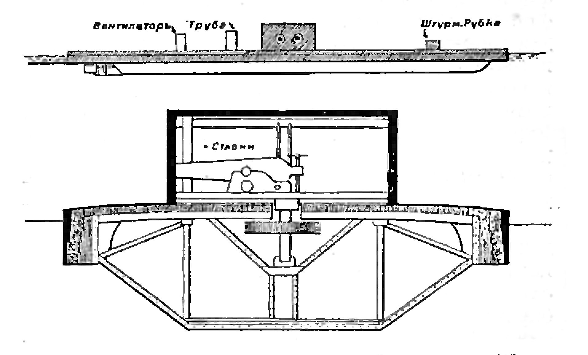 Monitor warships